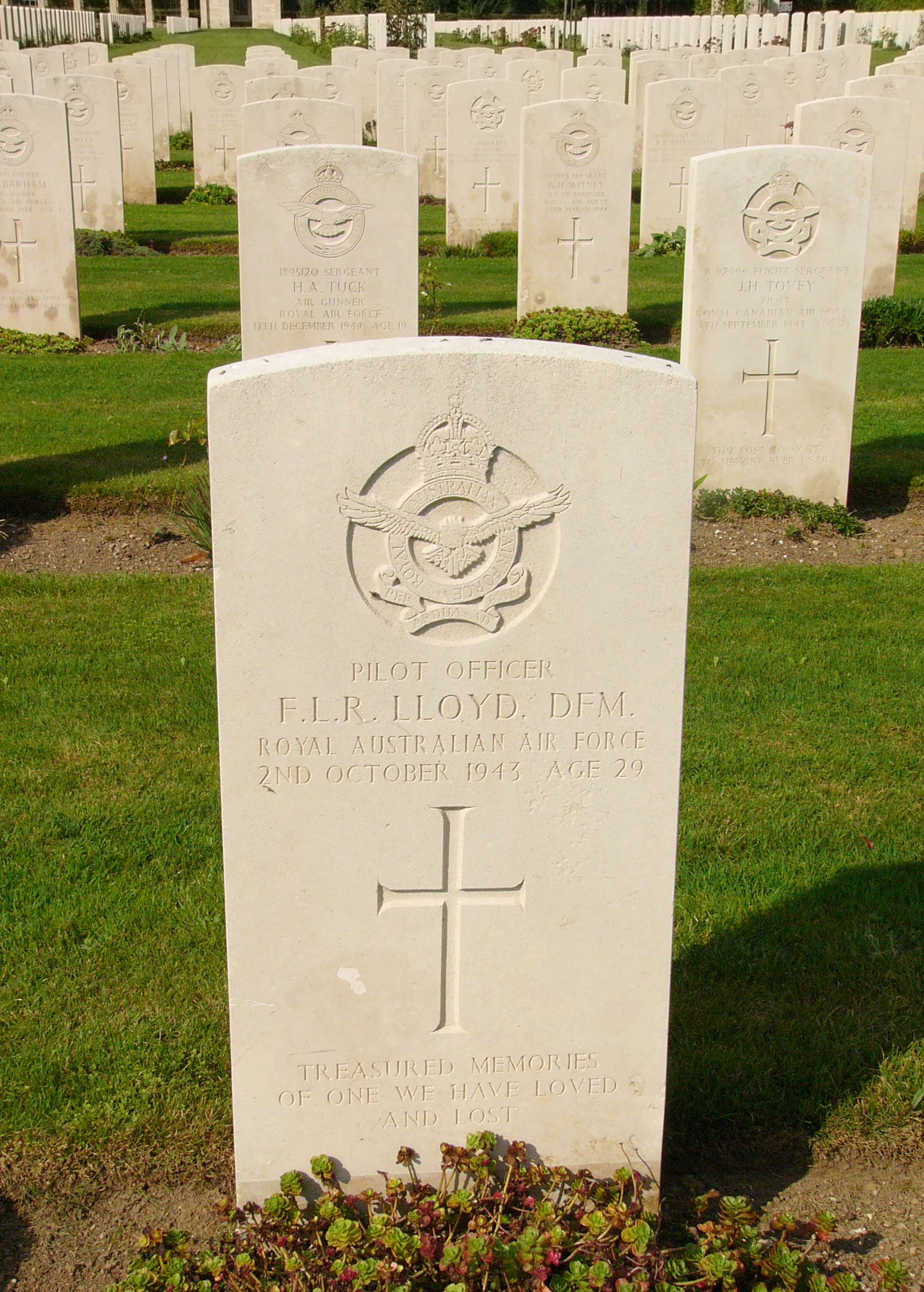 Grave of Pilot Officer Frank Leathley Robinson Lloyd DFM RAAF, of Normanhurst, New South Wales, Australia at the Durnbach War Cemetery near Gmund am Tegenrnsee, Germany. He was Captain of 460 Sqdn Lancaster JA856, crashed, probably as a result of enemy action, at Deisenhofen, 13 km SSE from the centre of München during a 2 October 1943 night-time bombing raid on München.